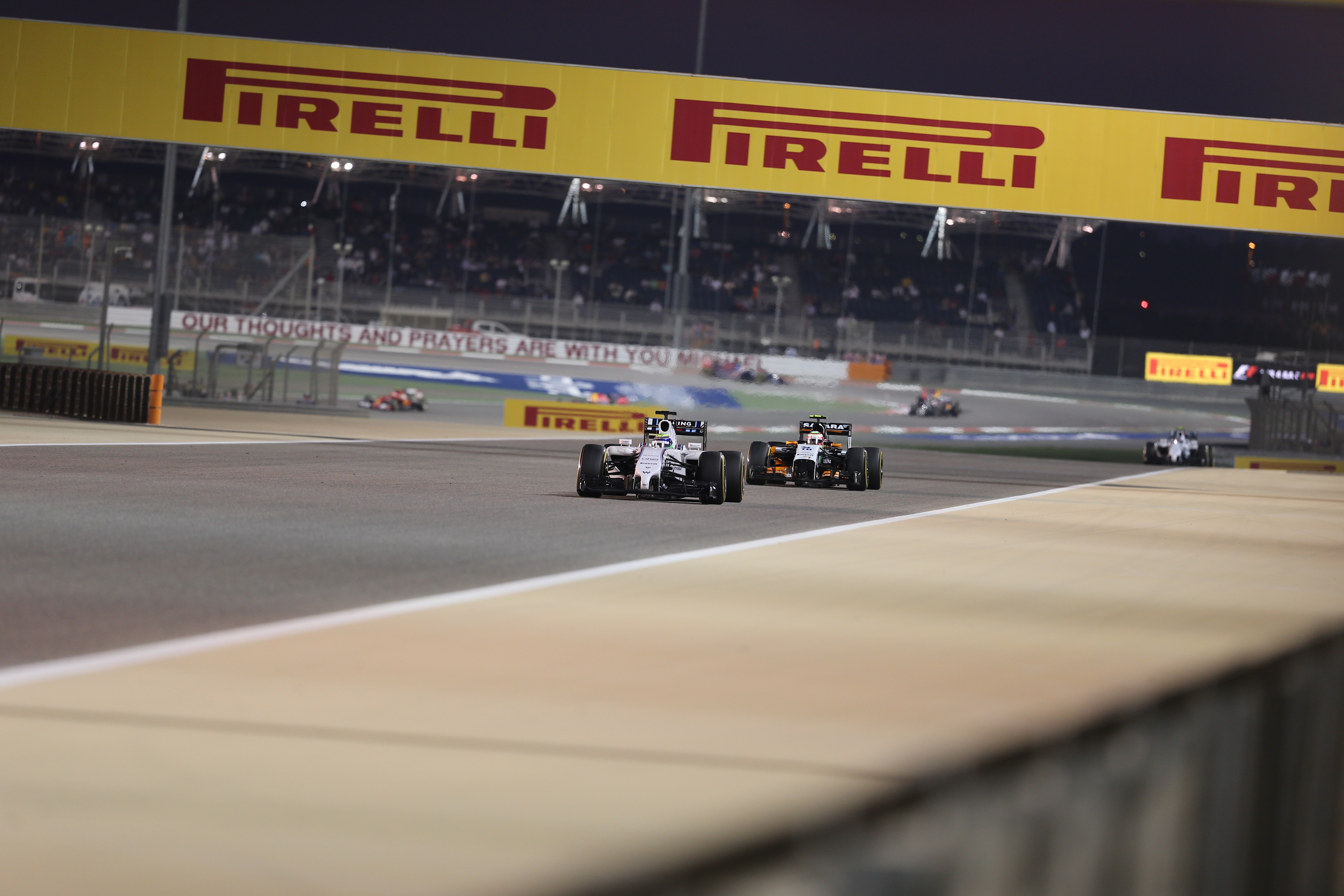 Massa and Pérez at the 2014 Bahrain Grand Prix